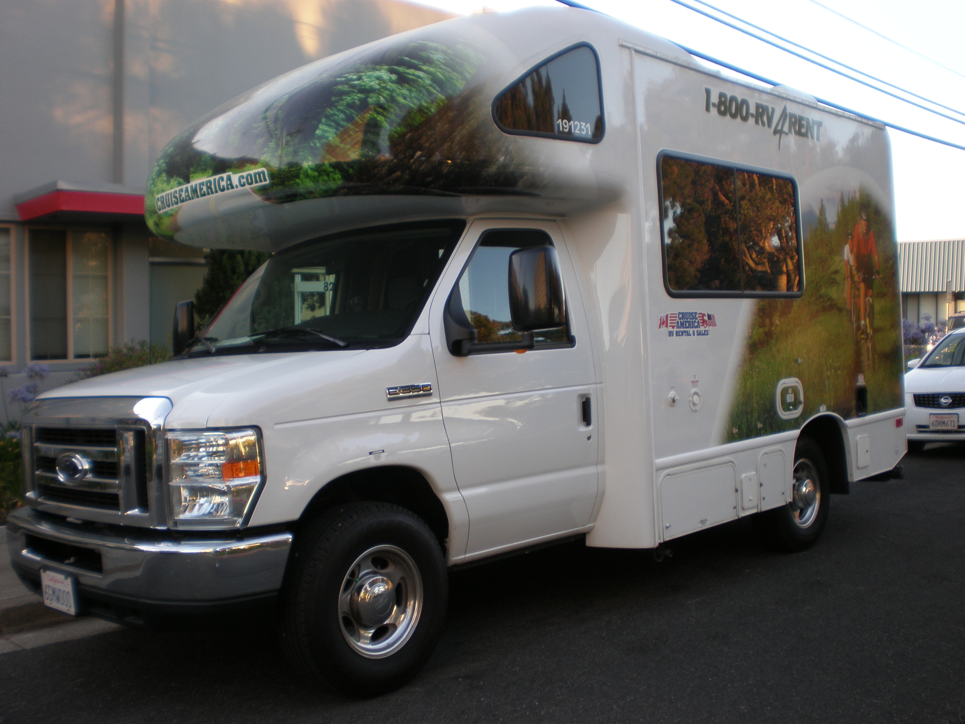 A Cruise America Ford E-350 RV in Burlingame, California.